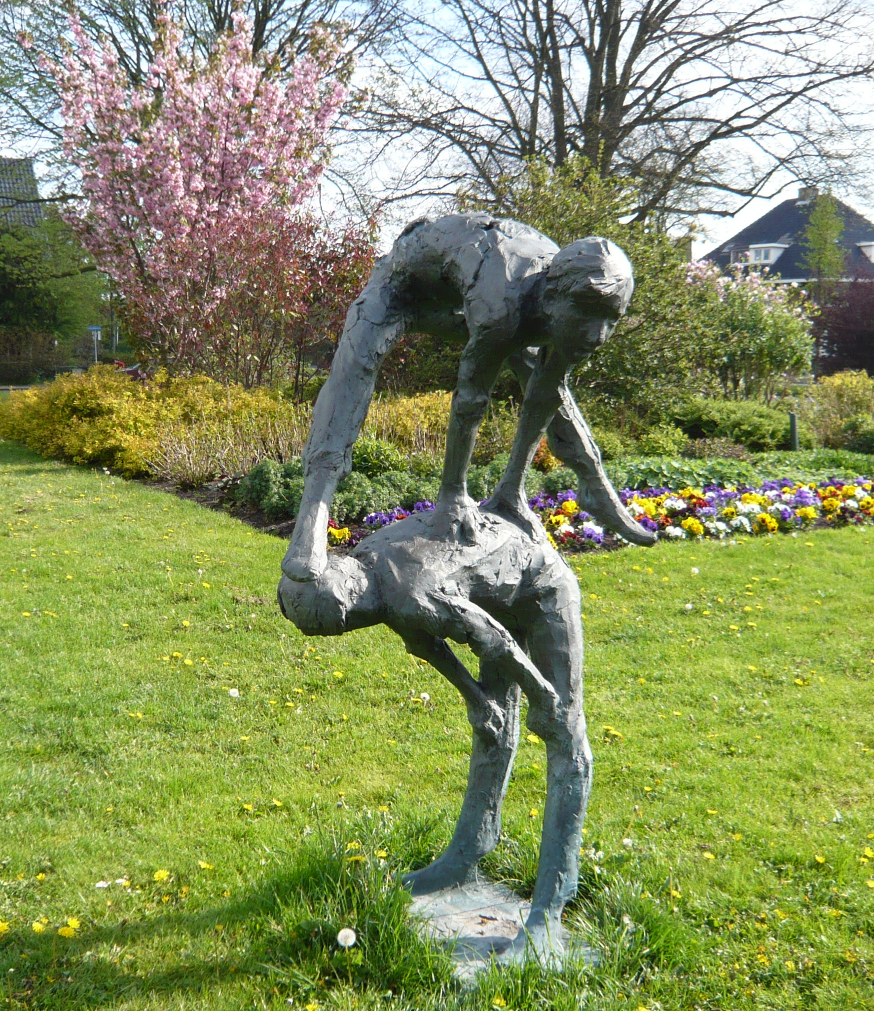 Bronze statue of boys leap frogging. Situated in Julianaplantsoen in Heemstede, the Netherlands, across from Heemstede library. Artist Kees Verkade created this statue in 1968, and the refusal of the Heemstede burgemeester to attend the unveiling ceremony made national news. The statue's faces were painted orange when the Dutch won a soccer final in 1988.